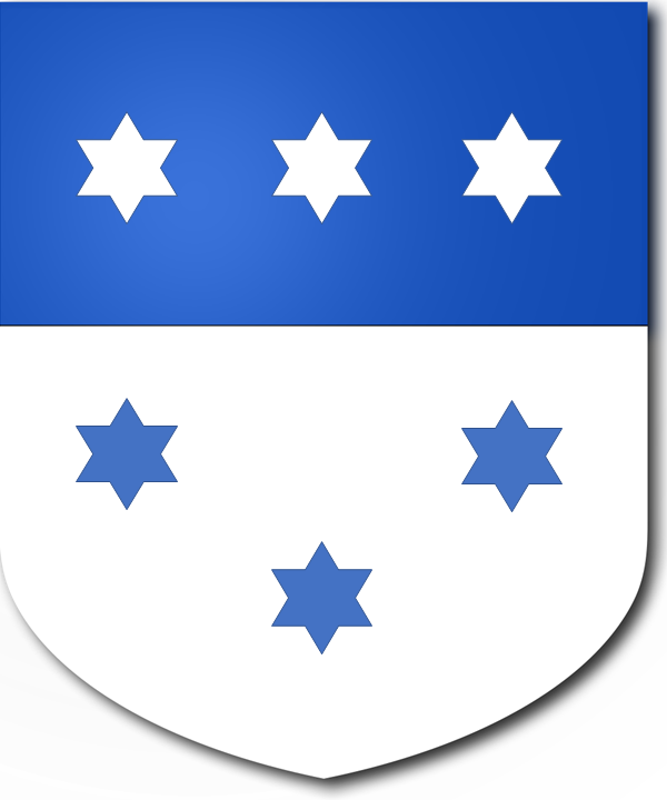 Agapito shield